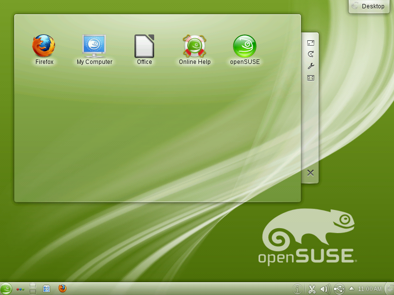 Screenshot of openSUSE